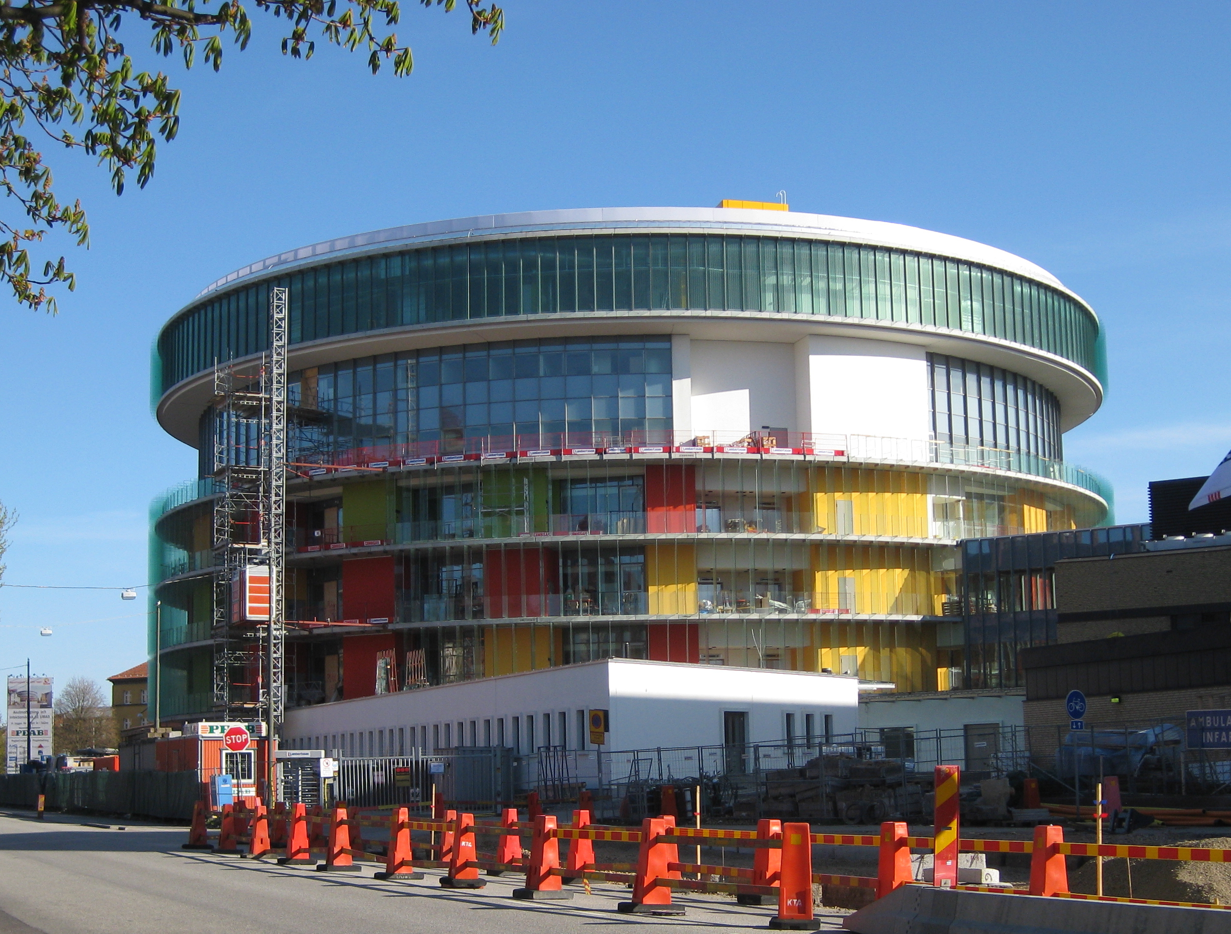 The new emergency entrance at the hospital in Malmö, being built.